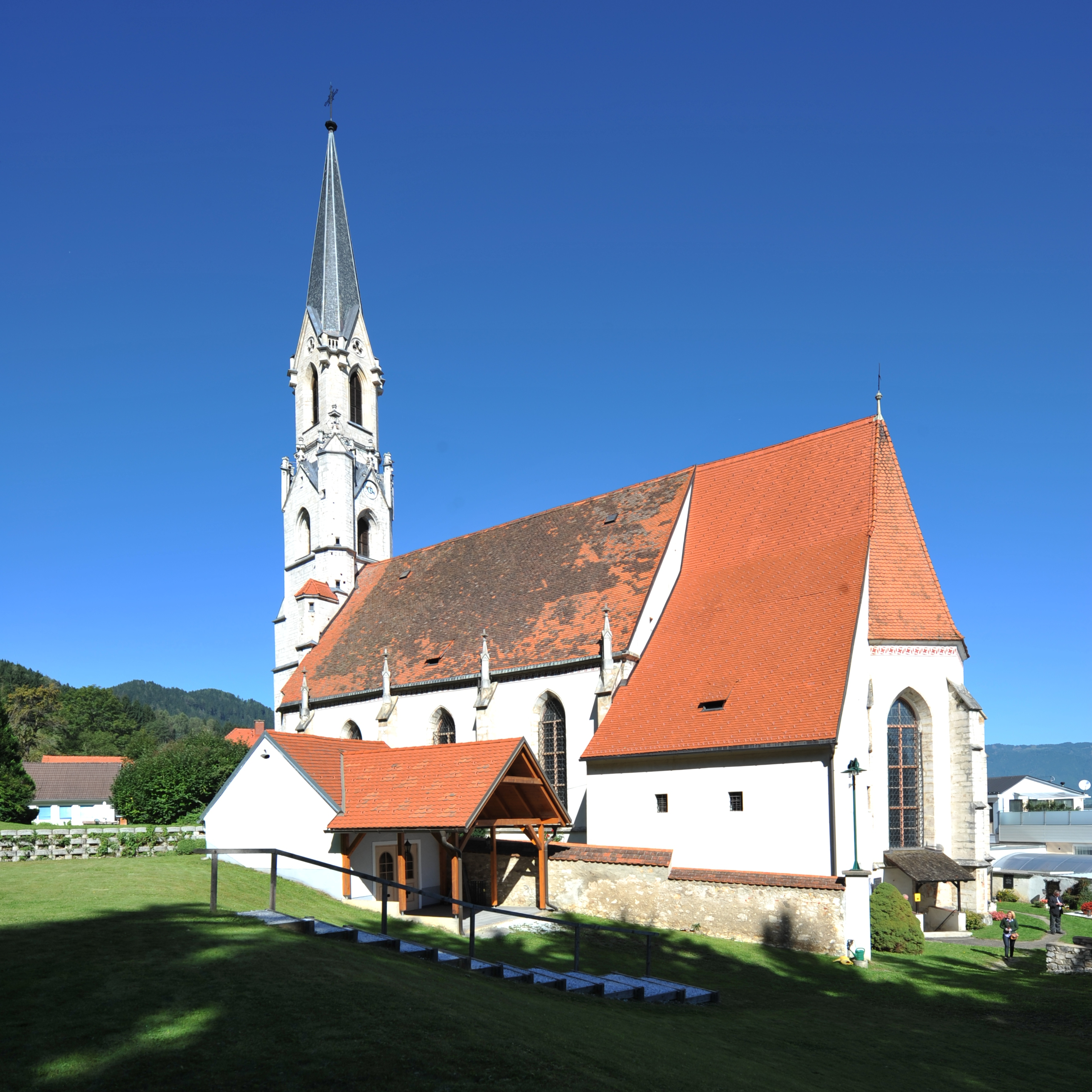 Dieses Foto wurde im Rahmen des von Wikimedia Österreich unterstützten Projekts Wiki takes oberes Murtal erstellt. The making of this work was supported by Wikimedia Austria. For other files made with the support of Wikimedia Austria, please see the category Supported by Wikimedia Österreich. Kath. Pfarrkirche, Wallfahrtskirche Mariä Himmelfahrt und Friedhof